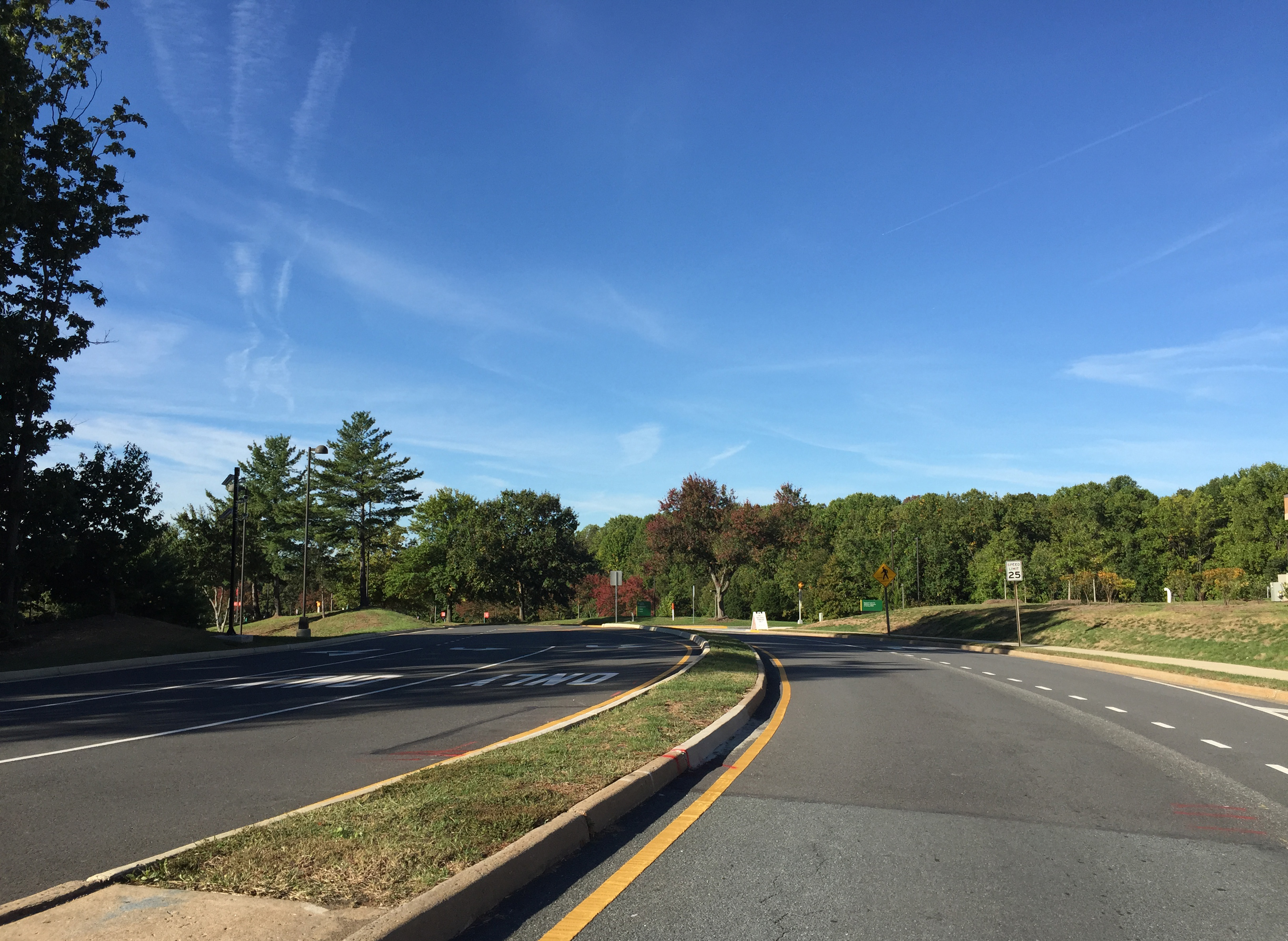 View south at the north end of Virginia State Route 394 (College Drive) at Neabsco Mills Road (Virginia State Secondary Route 642), at the Northern Virginia Community College Woodbridge Campus in Neabsco, Prince William County, Virginia